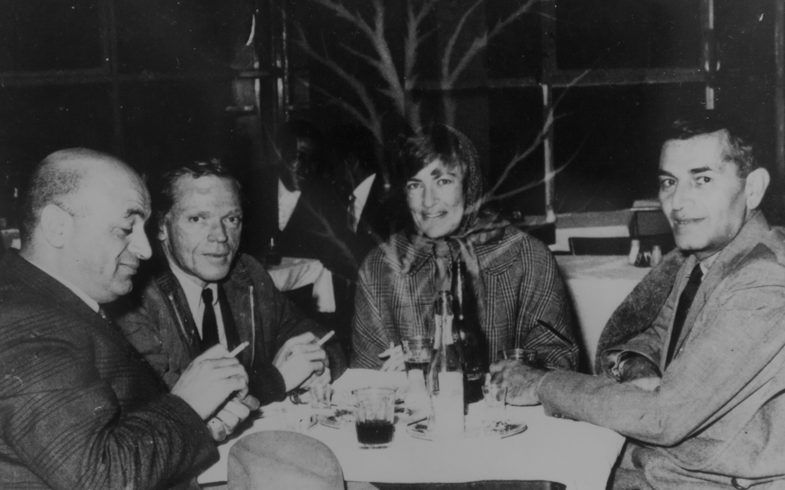 Terence O'Donnell, Yahya Bakhtiar, Katherine S. Livingston and unknown host in a cafe in Estefan, Iran in the early 1960s.